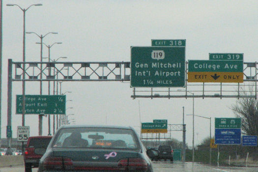 Taken 6 May 2007 by Joseph Houk, while traveling Northbound on I-94 West in Milwaukee. Sign includes shield for WIS 119, General Mitchell Airport.